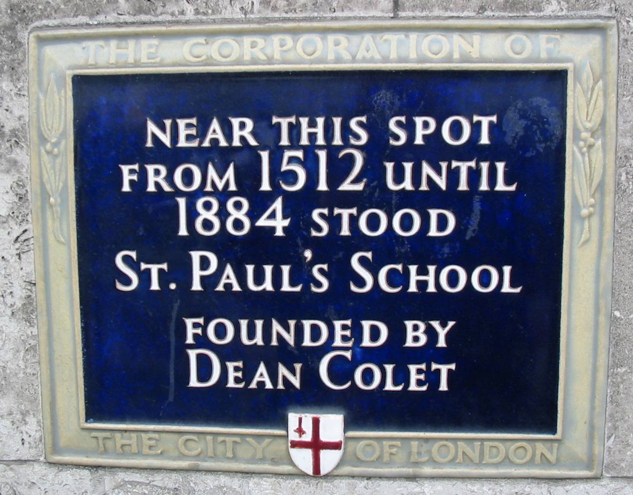 London